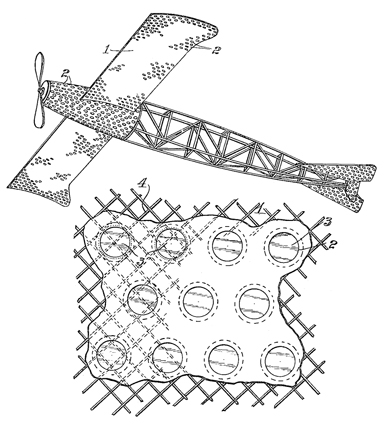 US Patent 1293688